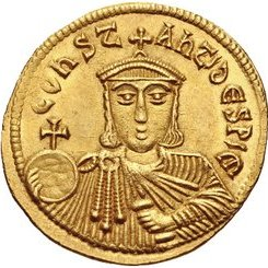 Symbatios Constantine. 813-820. AV Solidus (21mm, 4.47 g, 6h). Constantinople mint. COnSτ Anτ’ ∂ЄSP’ Є, crowned facing bust of Constantine, holding globus cruciger and akakia. DOC 2a; SB 1627. EF.